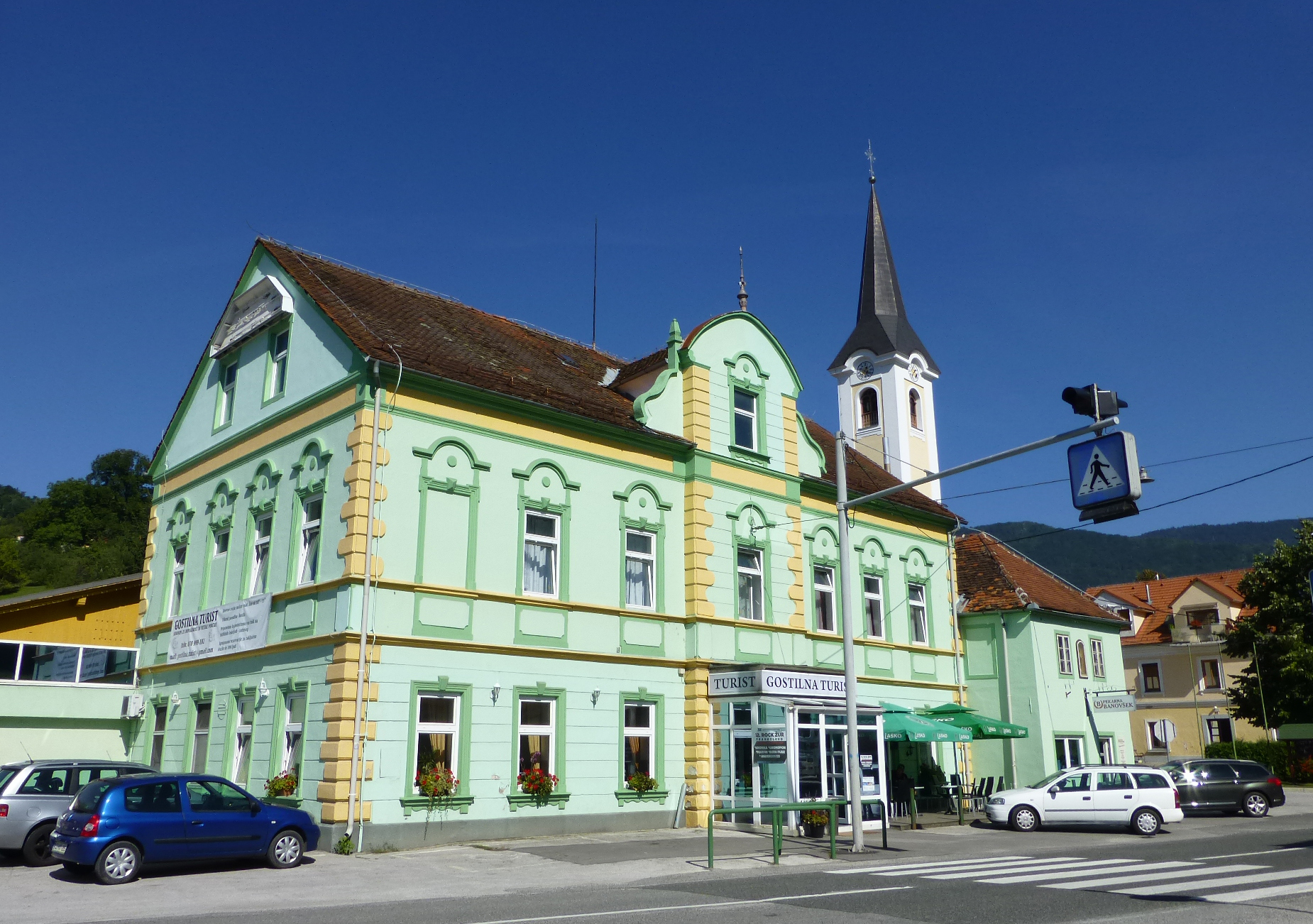 Main place in Frankolovo, municipality of Vojnik, Styrian Slovenia. Restaurant and church.